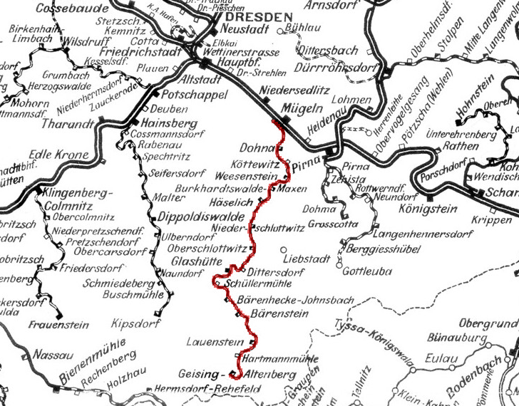 diagram of the Müglitz Valley Railway